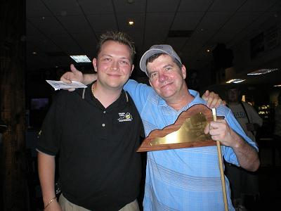 2005 Virginia State Nine-Ball Championship Tournament Promoter Josh Dickerson and Keith McCready